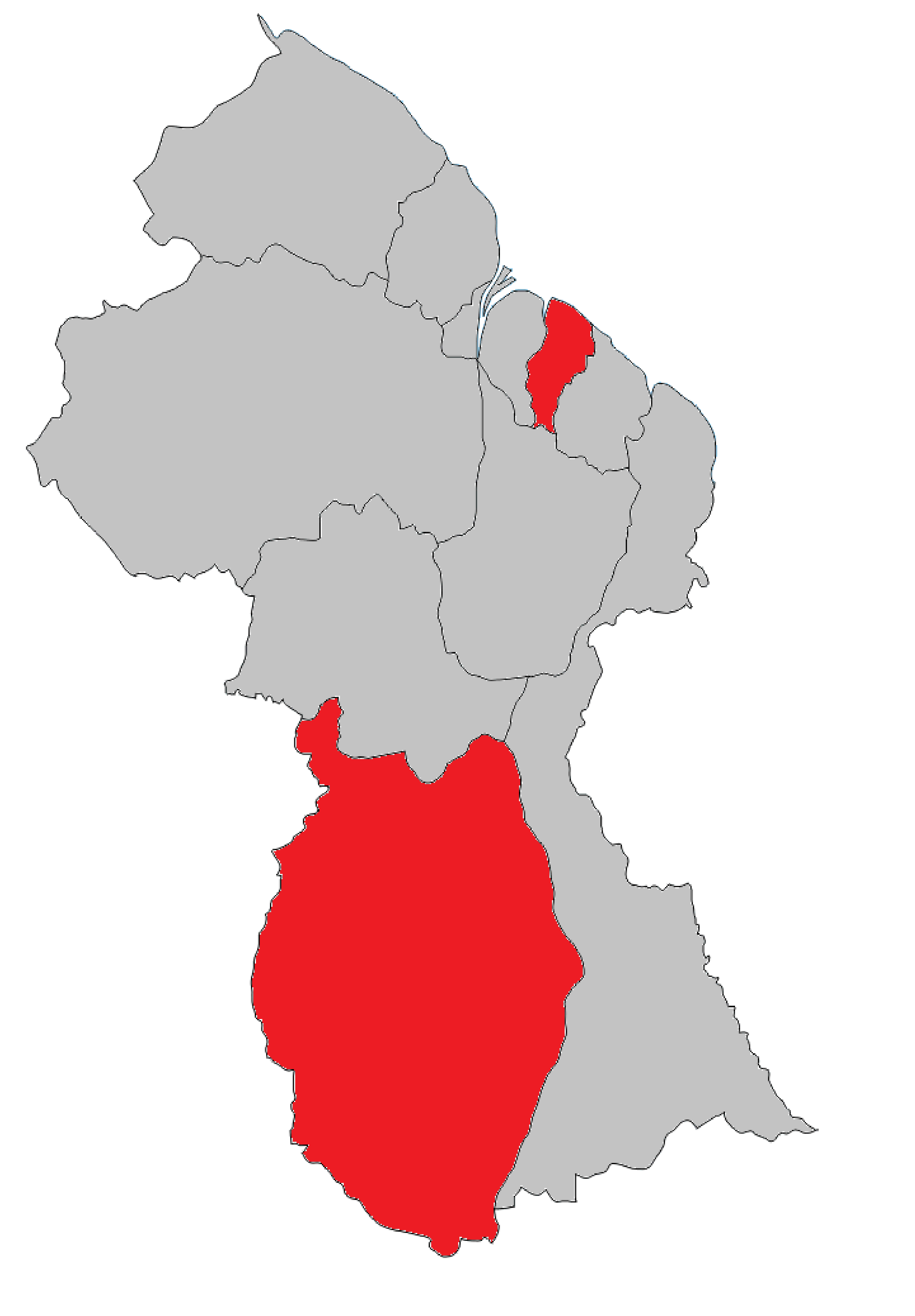 Dengue epidemic 2019-2020 in the Cooperative Republic of Guyana.